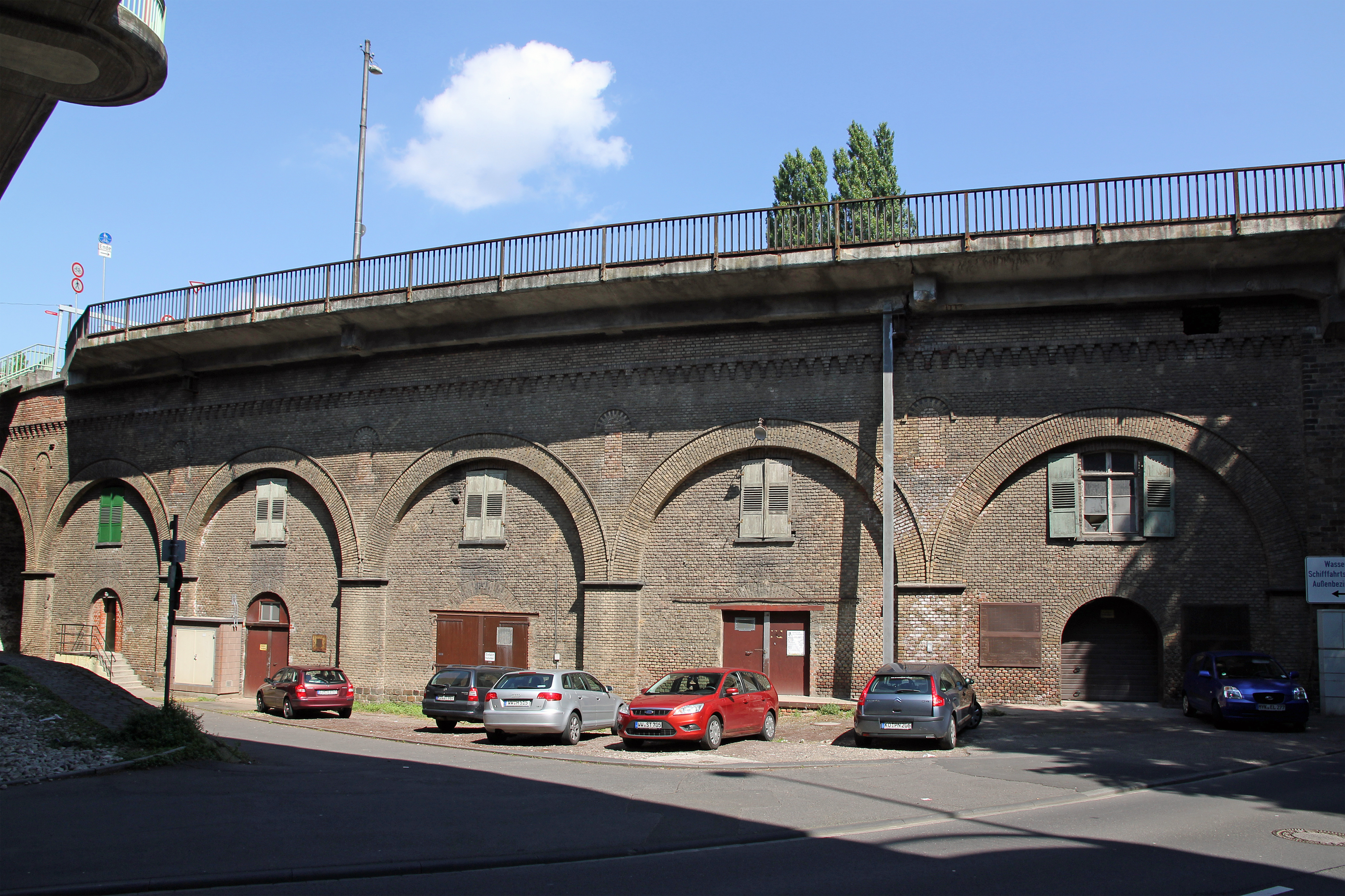 Pfaffendorf Bridge in Koblenz